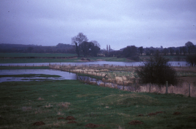 Site of the Whirly Holes, Caerwent Vast springs of fresh water used to emerge here on the banks of the Neddern Brook. Then on 16th October 1879 the driving of the Severn Tunnel breached a water-filled cave, flooding the tunnel and causing the Whirly Holes to dry up. All that can be seen now are two shallow depressions on either side of the river, which here is in flood. The larger, on the north bank, can be seen in front of the pair of Lombardy Poplars.